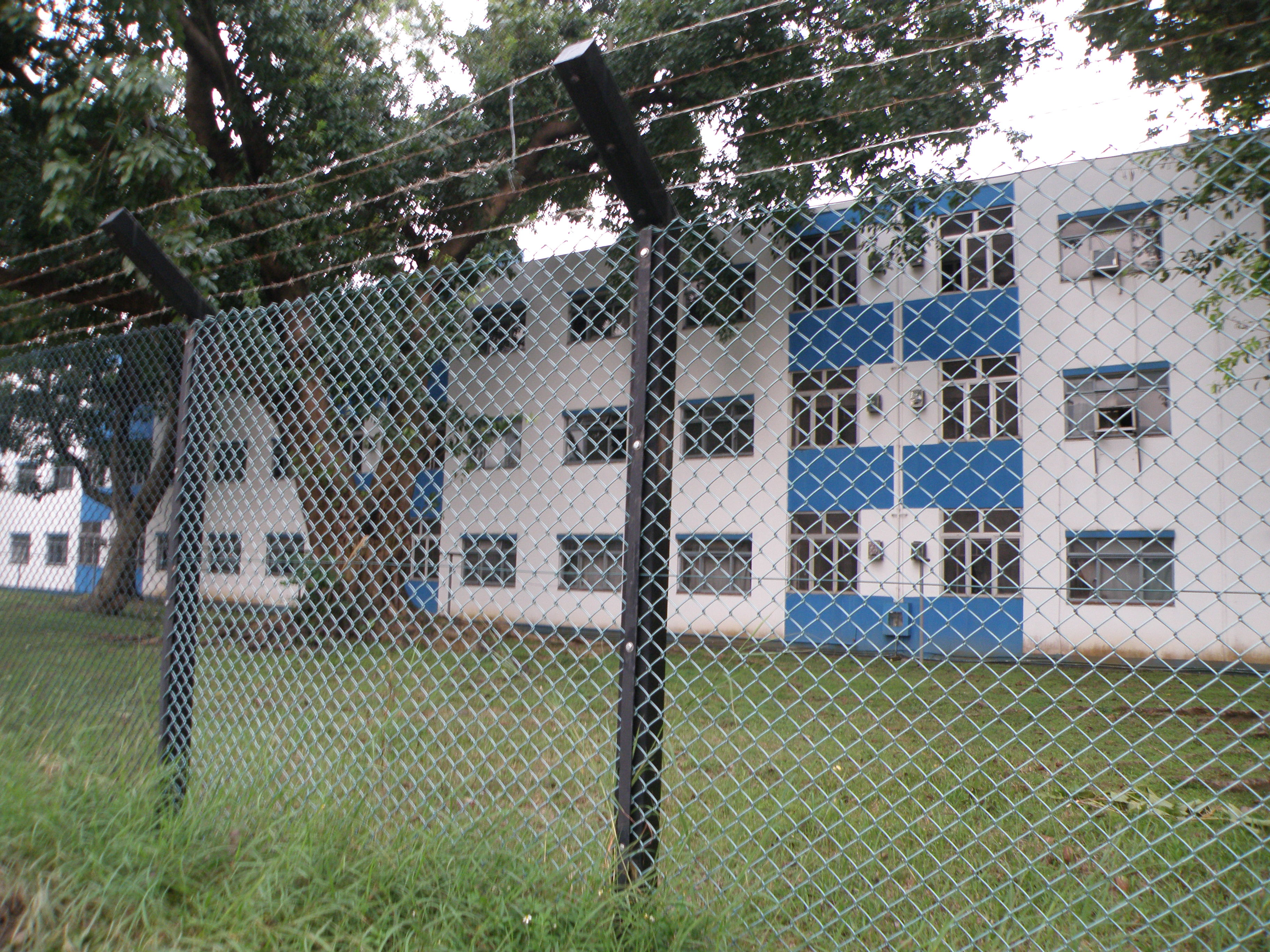 Shek Kong Barracks in Shek Kong, Hong Kong.